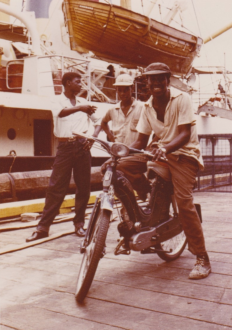 The proud owner in 1958 with his new moped Victoria in Georgetown, British Guyana.